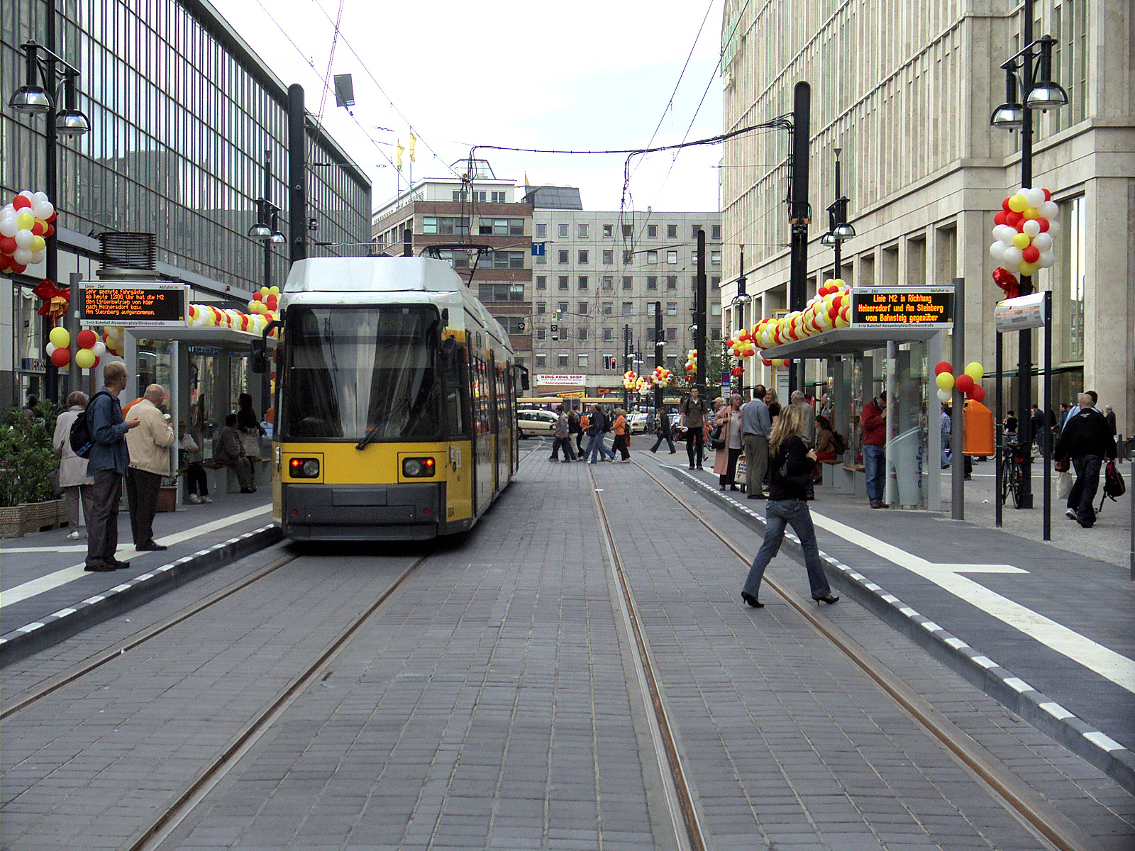 streetcar type GT6N-ZR of the Berlin tramway at Alexanderplatz